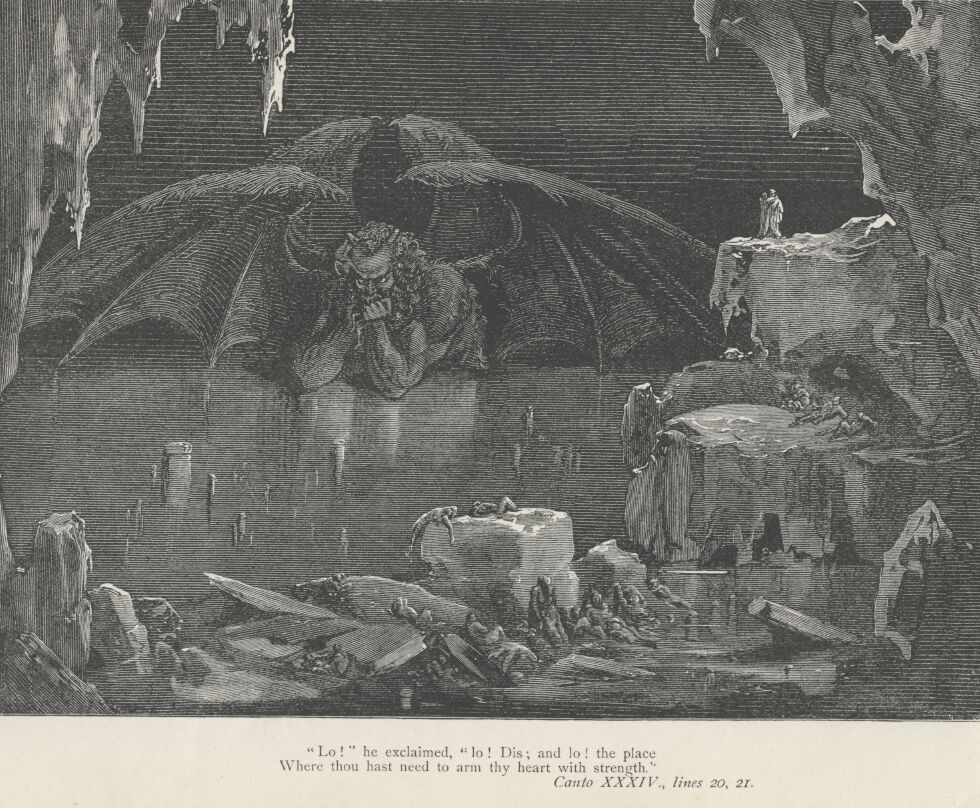 Gustave Dore drew this illustration of Lucifer for Canto 34 of Dante's Divine Comedy:Inferno, translated by Henry Cary. The caption reads: "Lo!" he exclaimed, "lo! Dis; and lo! the place Where thou has need to arm thy heart with strength." Canto XXXIV., lines 20, 21.